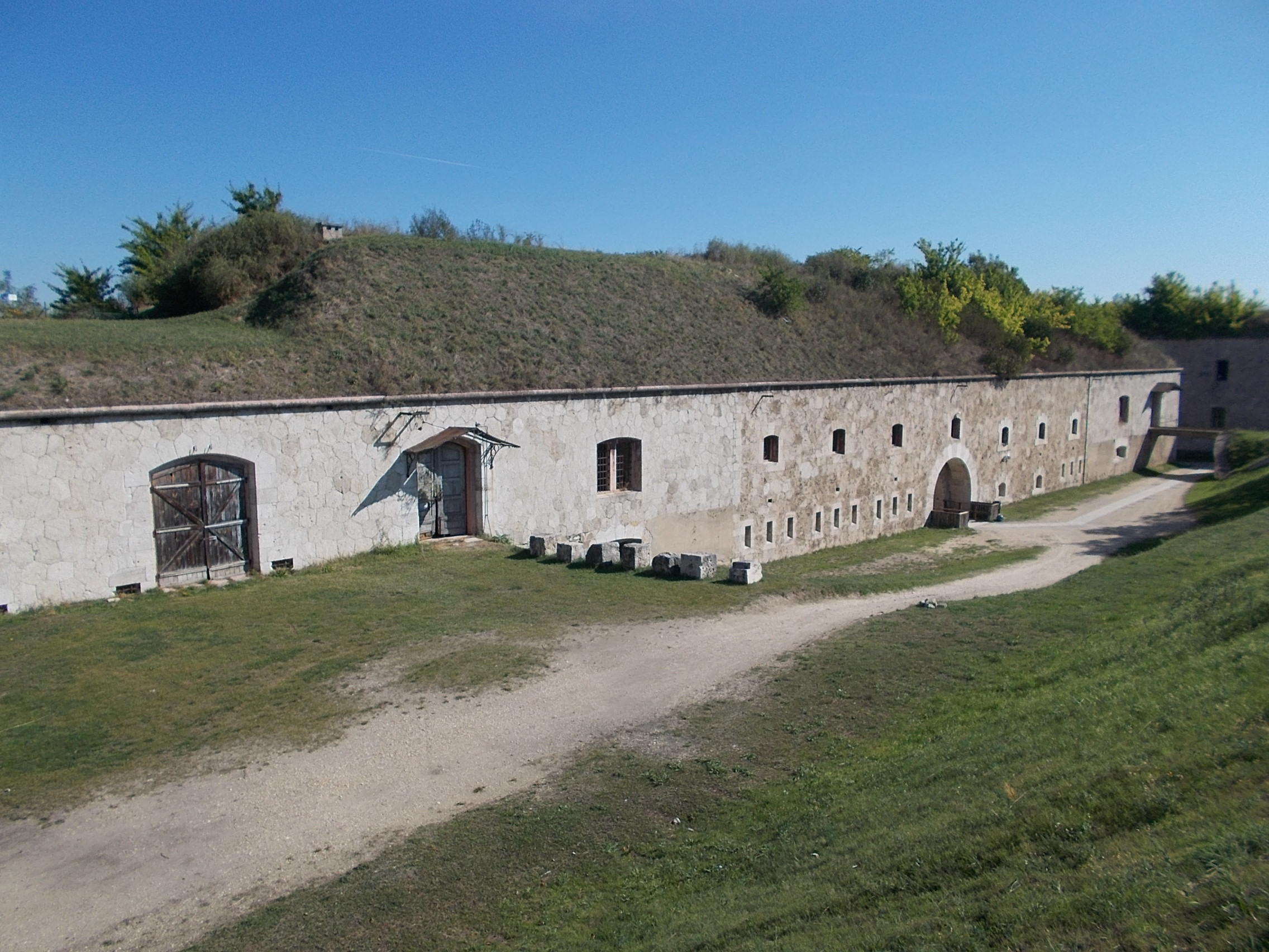 Fort Monostor. Now, museum. The fort is a complex of irregular polygon-shaped defenses which surrounding a central courtyard. Parts: the northern side of a three-storey cannon tower, on west and south 'oldalazómű' defense structures are located, the entrance can be find on east . In the area of the fort underground corridors connecting the following separate parts: the entrance and command buildings, the east half tower, a bakery, south 'kaponier', SW corner defense works, the east-west kaponier, NW Corner of defense works, the Danube Tower, the officers' building, the hospital, the barn and the shooting classroom. The first parts created under Napoleonic wars extended in 1848-1849. It was sapper barracks, military warehouse. Since the early 1970s, it has become the largest ammunition depot of the South Soviet Army Group. - Komárom, Komárom-Esztergom County, Hungary.